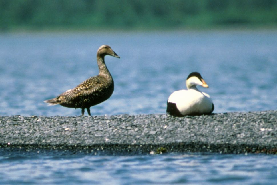 Common Eider Somateria mollissima v-nigrum pair, photographed in the Kodiak National Wildlife Refuge